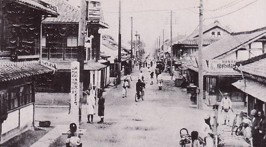 Kasuga-Cho in Taiden(Daejeon)